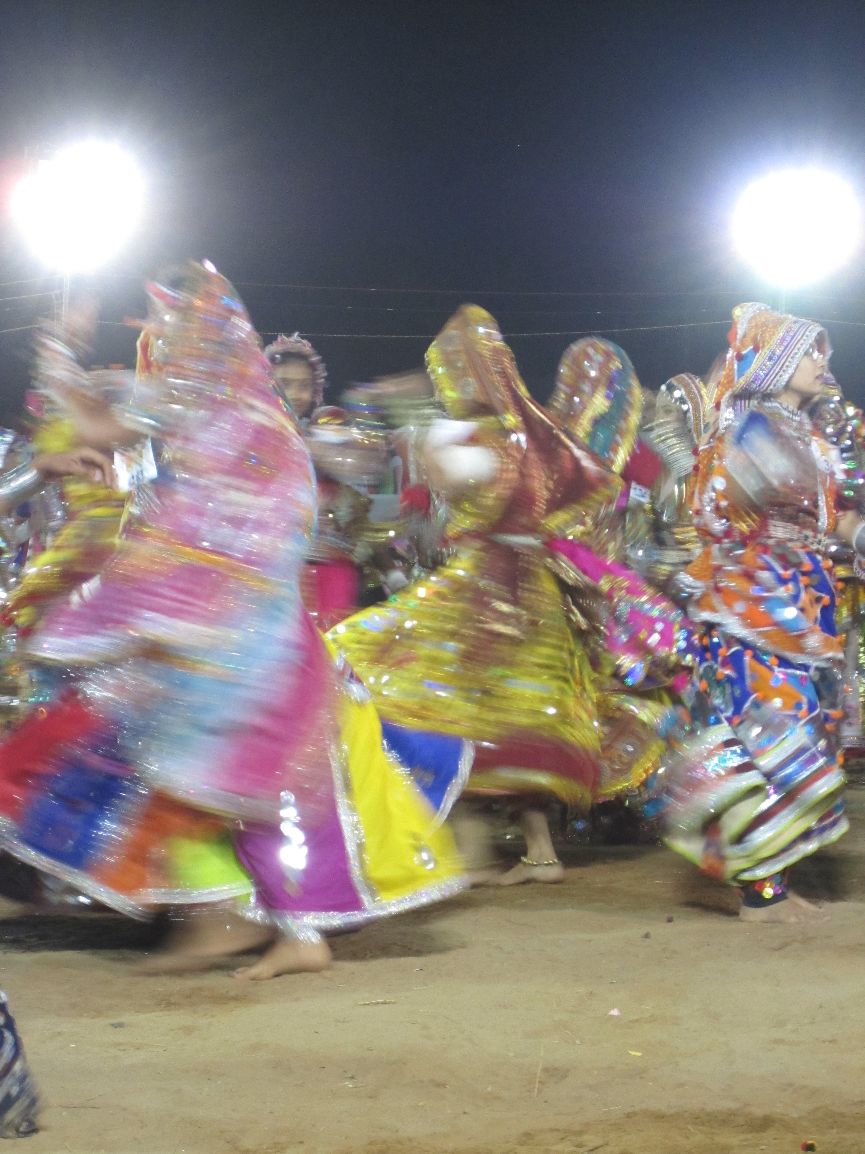 Navratri garba in Bhuj, India. This was the final round of the competition so only the most beautifully dressed, best dancers remained. (Many garbas incorporate competitions, some with fabulous prizes. I think this one the grand prize was a motorbike.)